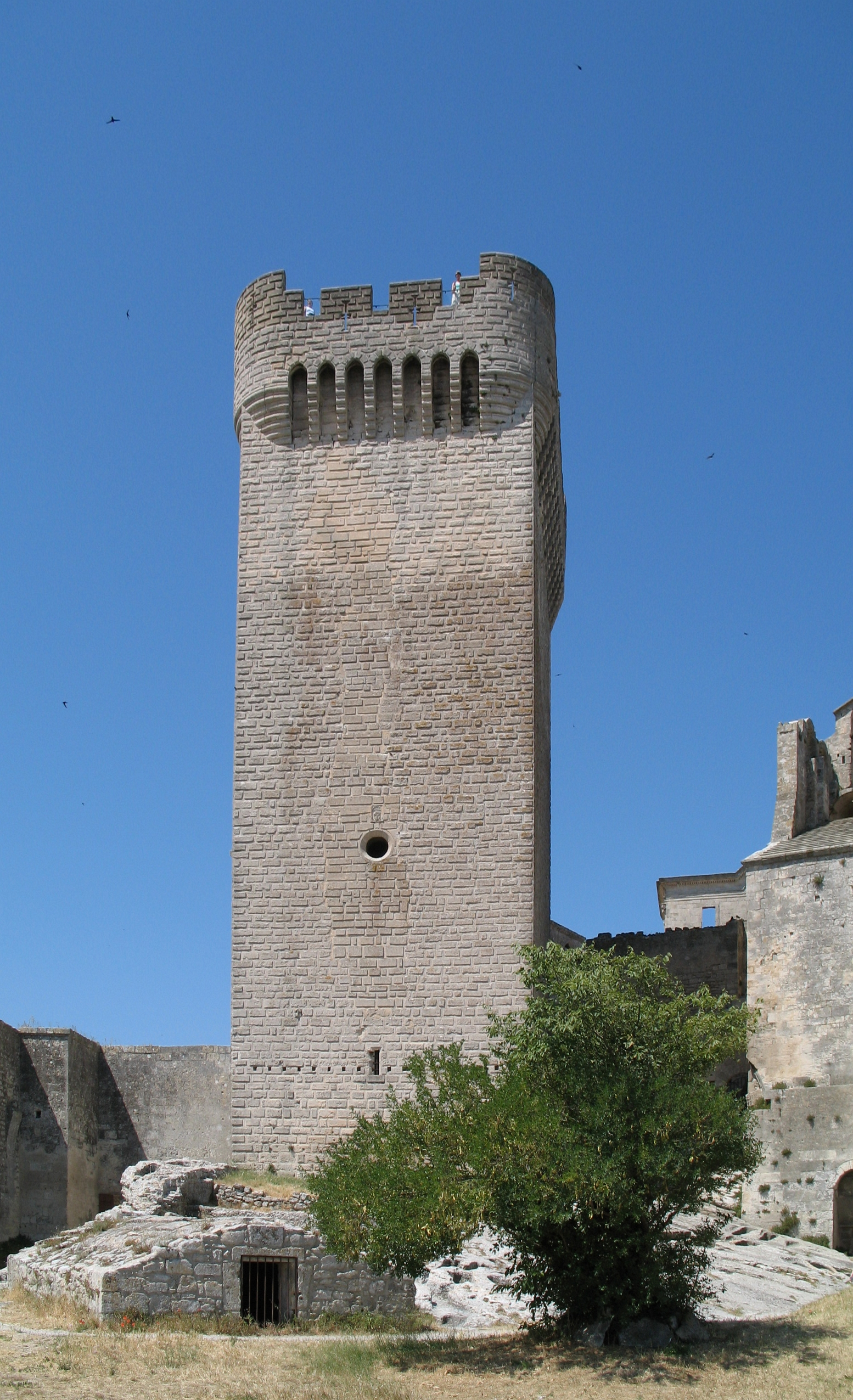 Montmajour Abbey near Arles (département des Bouches-du-Rhône, France): tower of abbot Pons de l'Orme